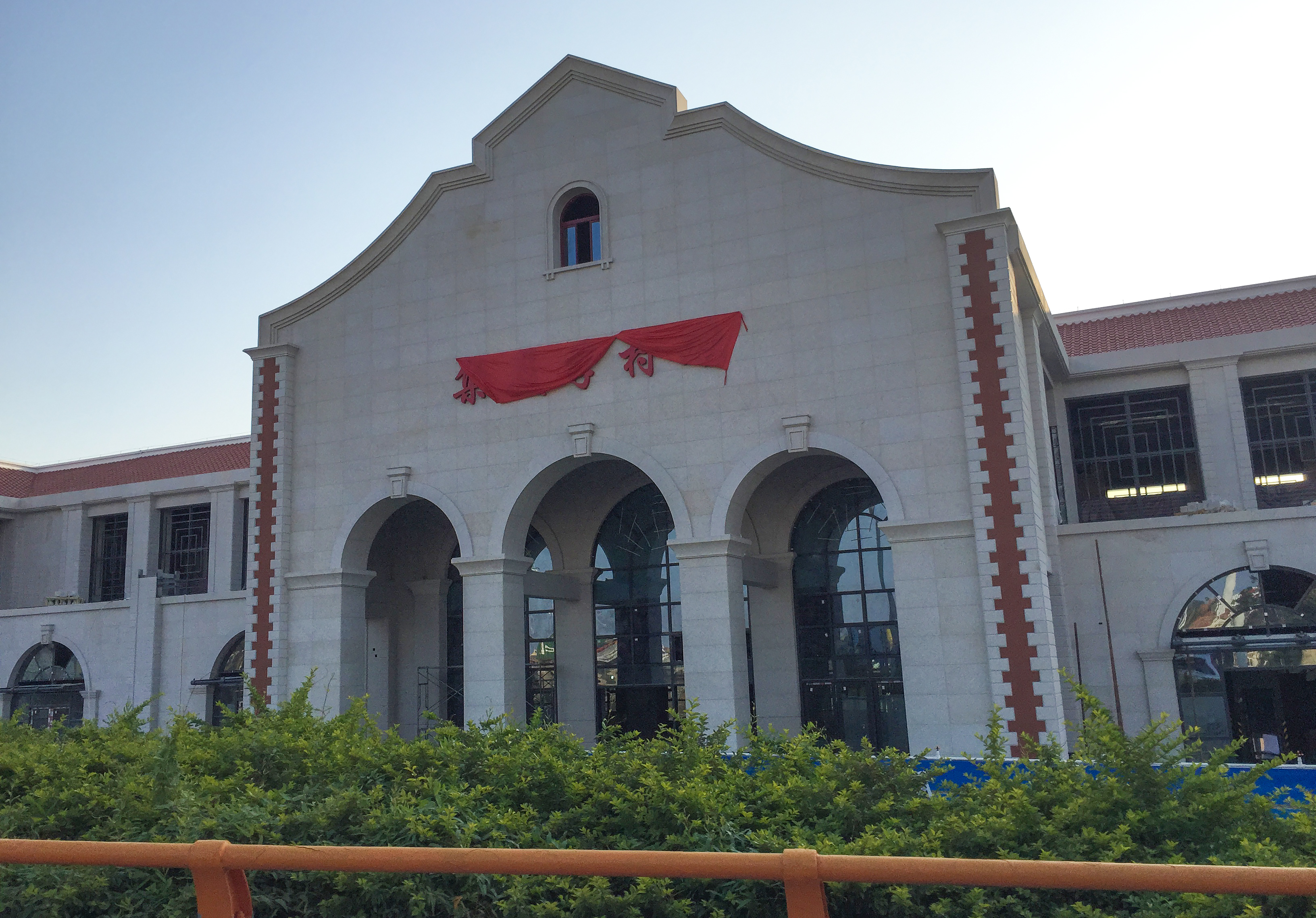 Backlight any time of the day...